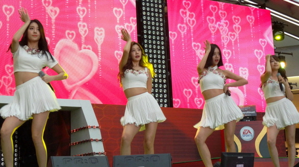 Girl's Day at FIFA Online 3 Spearhead Invitational 2014 Final Event